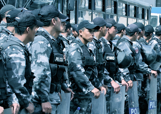 This photo was taken on December 10, 2008 in Mariscal Sucre International Airport, Pichincha, EC, using a Canon EOS 40D.